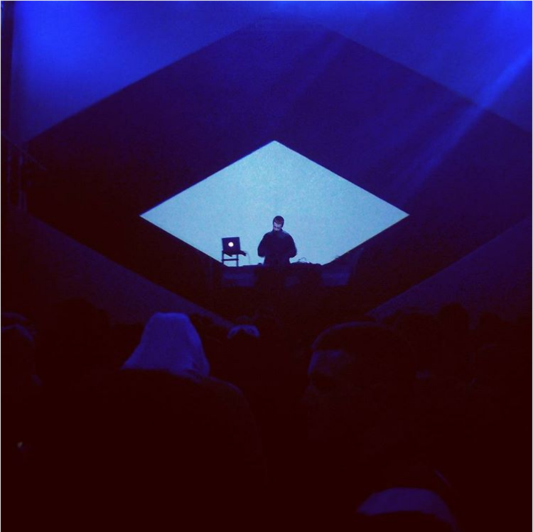 Sam Gellaitry at Panorama Festival 2016, France